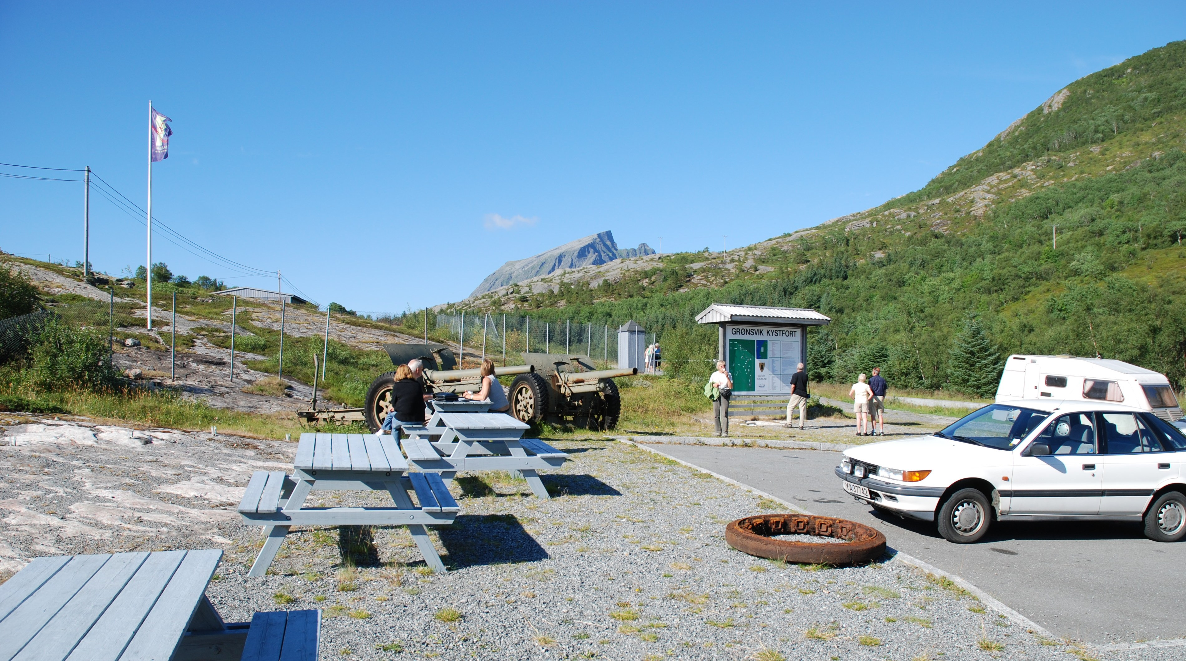 Bilde av parkeringsplassen ved Grønsvik Kystfort